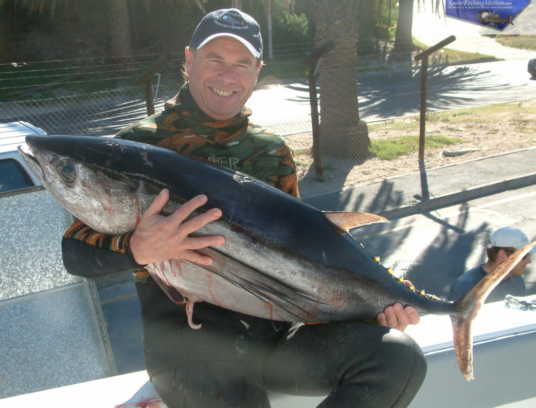 31 kg record longfin tuna taken in Cape Town